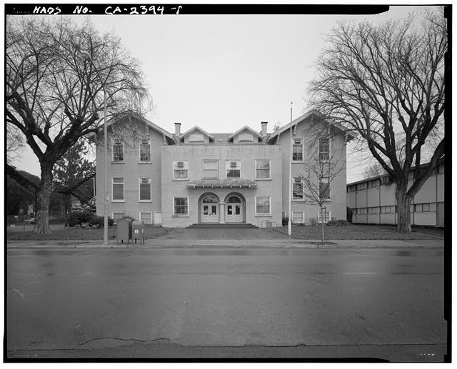 This is the the first of a series of 14 photos, all labeled: "WASHINGTON PRIMARY SCHOOL HABS No. CA-2394 (Napa County Agricultural Building), 1436 Polk Street, Napa, Napa County, California"; "Bill Agee. Photographer. January 8. 1994". This image is also labeled: "CA-2394-1 WASHINGTON SCHOOL, FACADE. FACING NORTH." This building was built and first used as an elementary school in 1909. After being used for some years for Napa County administrative offices, following which it was closed and slated for demolition, it was purchased by Blue Oak School, restored, and reopened as a primary school in 2002.